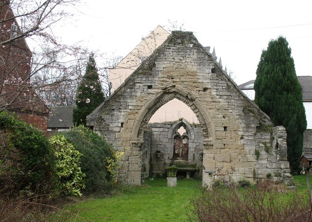 Ruined chapel of St Anne's Chapel Hospital, High St Agnesgate, Ripon, North Yorkshire